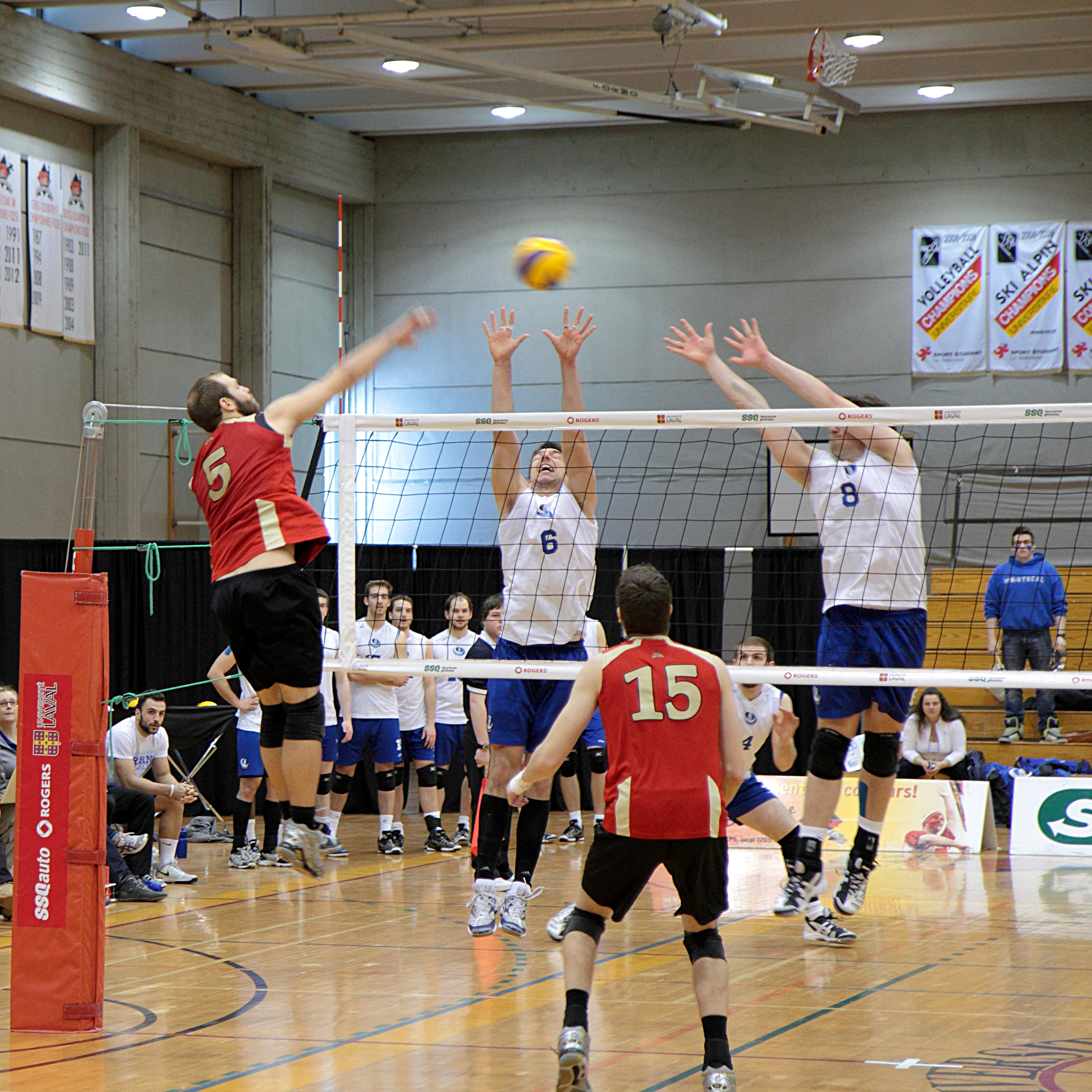 Volleyball players of Laval Rouge et Or and Montreal Carabins, PEPS